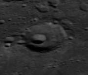 Oblique view of Chang Heng (crater), on the far side of the moon. Facing east (north is at left).